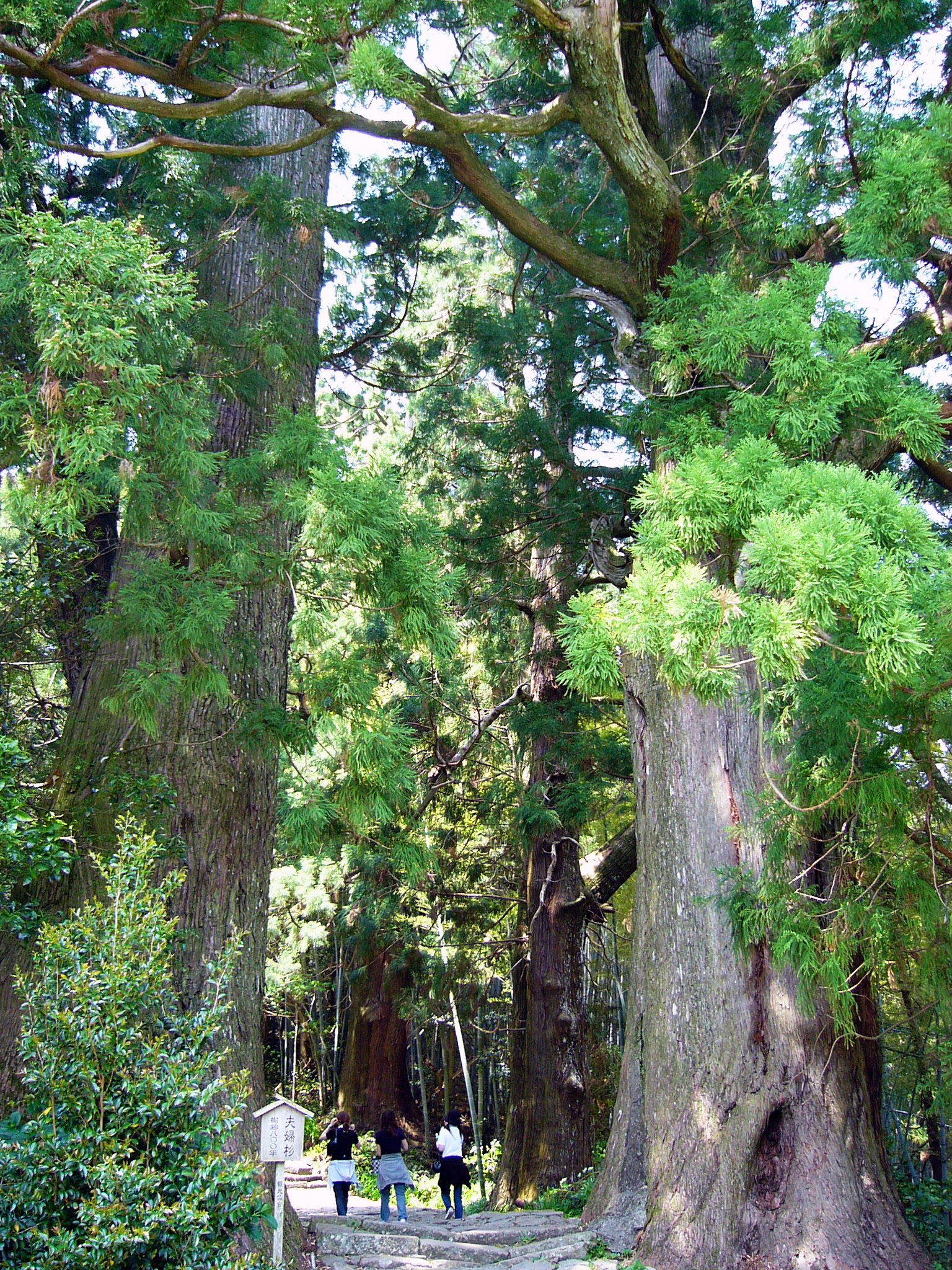 Myoto-sugi at Daimonzaka in Nachikatsuura, Wakayama prefecture, Japan